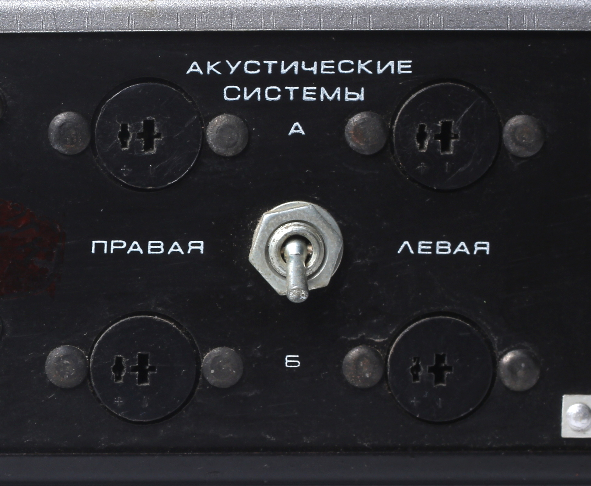 Audio connectors USSR